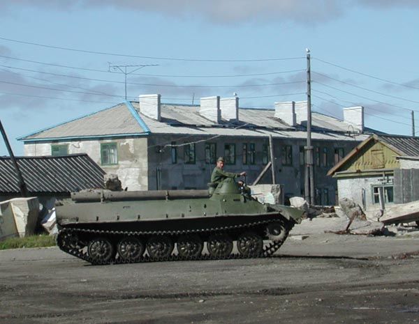 Old soviet military vehicle, Lorino